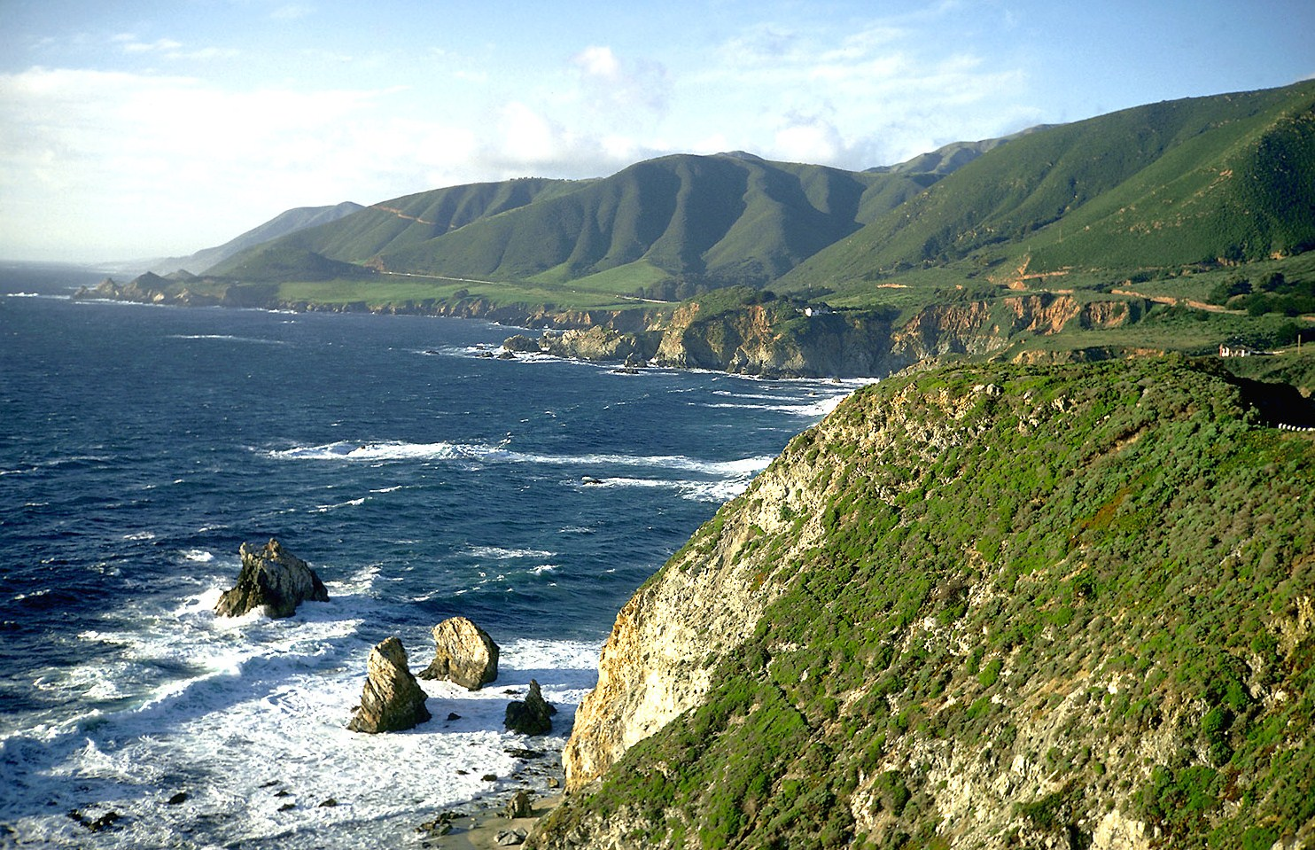 The coast of Big Sur in California in spring 1969